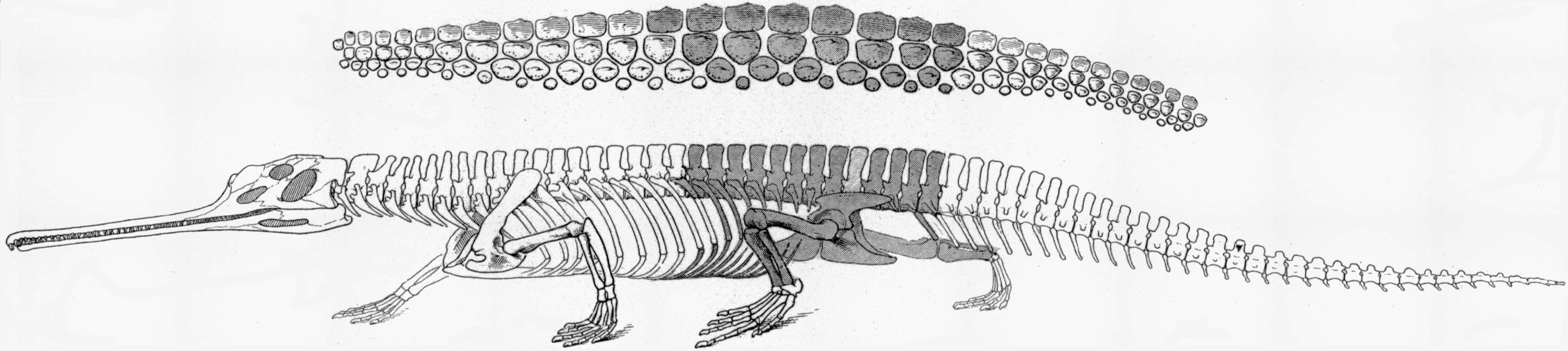 Skeleton and dermal plates from the hip region of Rutiodon manhattanensis. Shaded portion represents parts preserved in the Fort Lee specimen.